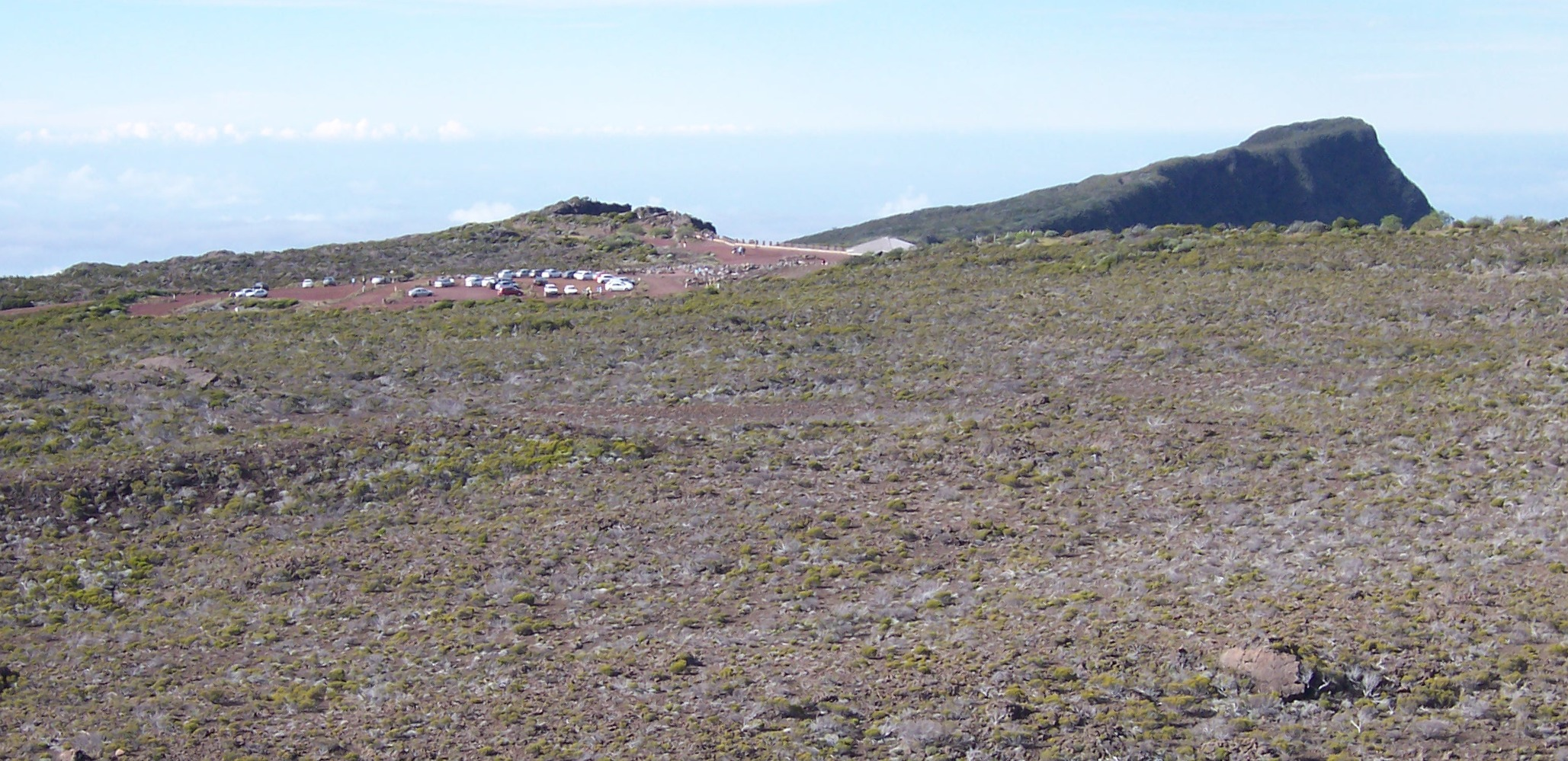 The parking lot at the end of the Route du Volcan, on the way to the Piton de la Fournaise summit, near the Pas de Bellecombe. In the background : Piton Partage